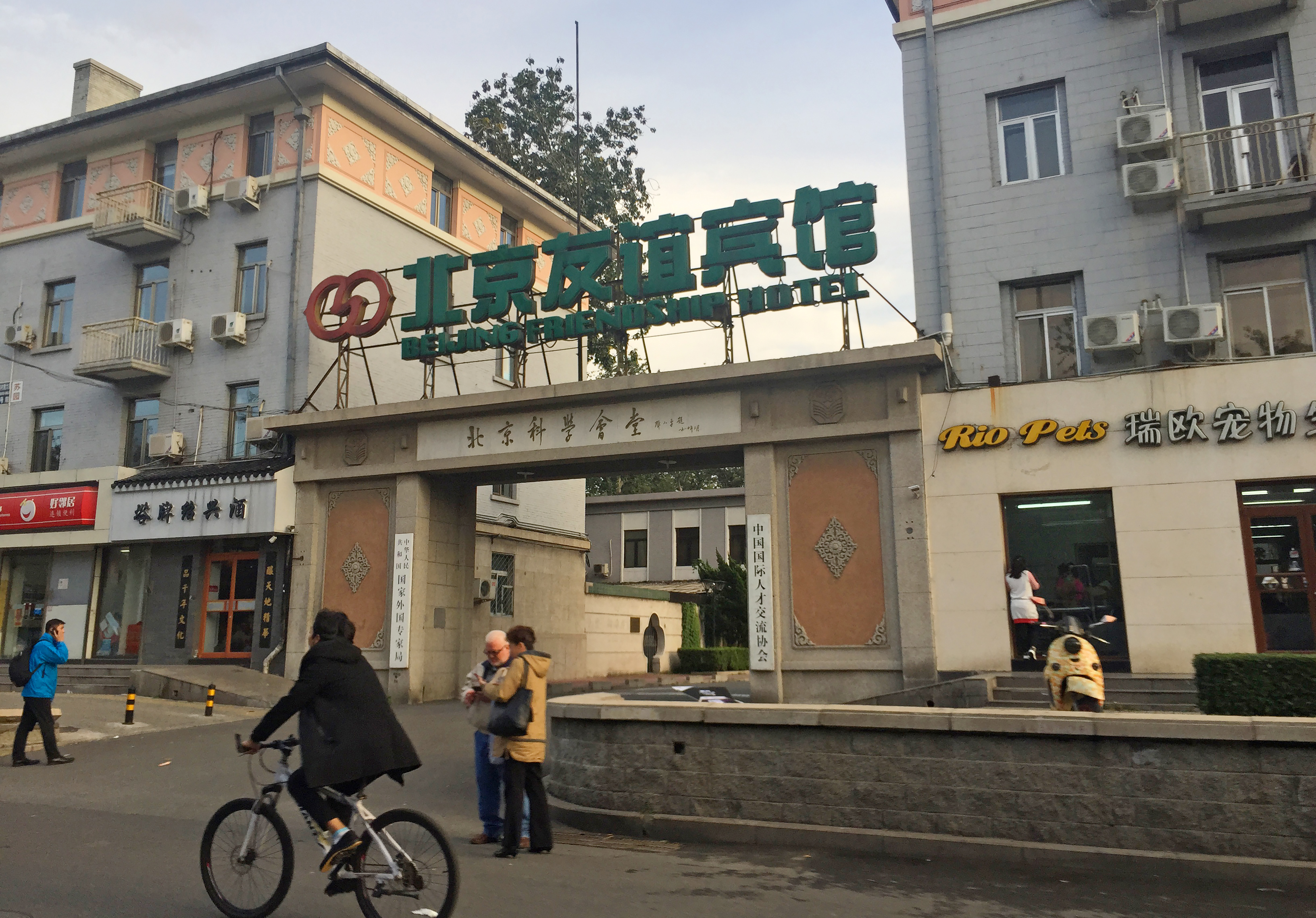 At Sitongqiao West.